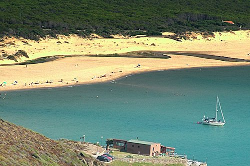 The beach of Portixeddu, from Capo Pecora (Costa Verde)